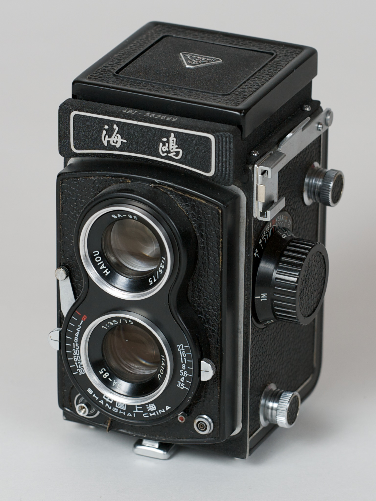 Seagull 4BI Twin-lens medium-format reflex camera.